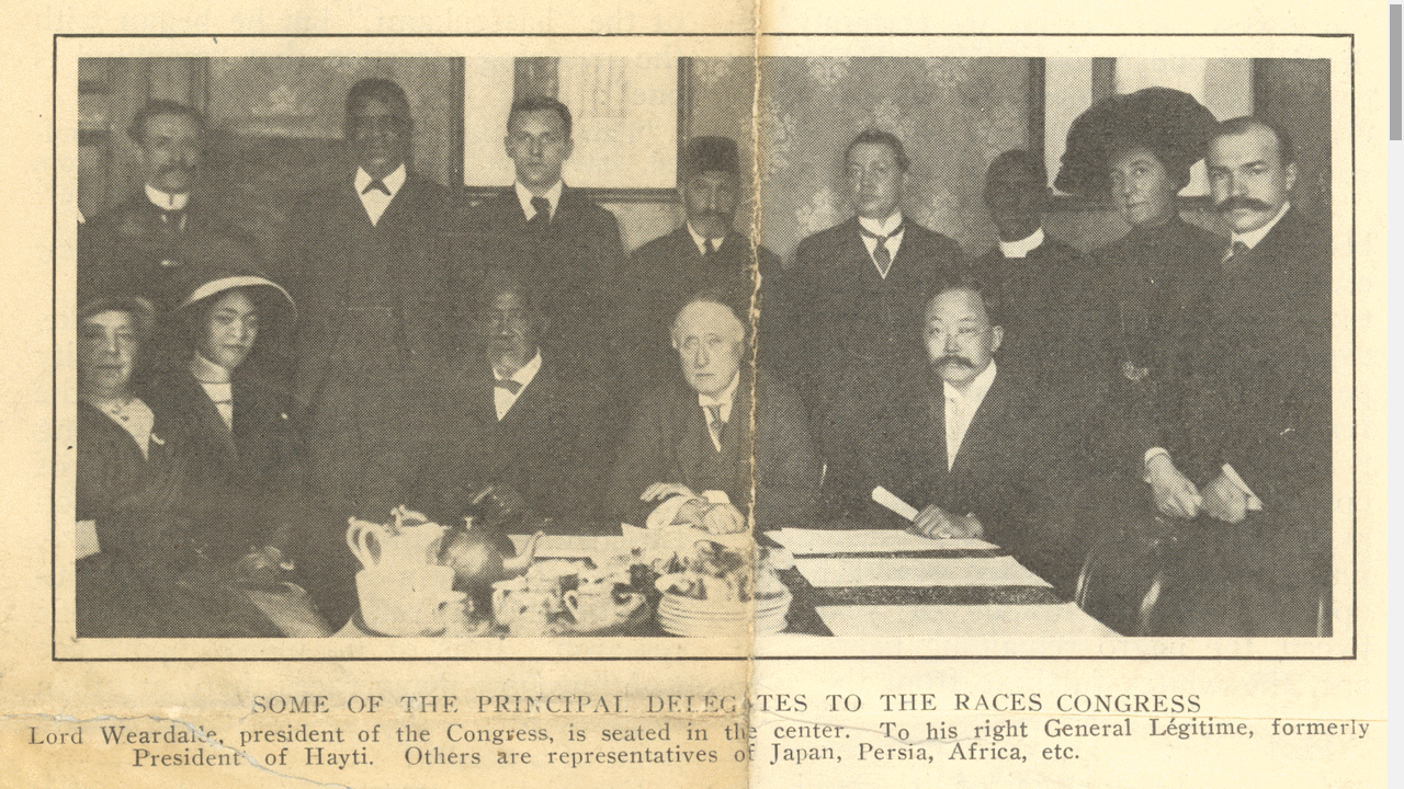 Du Bois, W. E. B. (William Edward Burghardt), 1868-1963. The first Universal Races Congress. W. E. B. Du Bois Papers (MS 312). Special Collections and University Archives, University of Massachusetts Amherst Libraries.